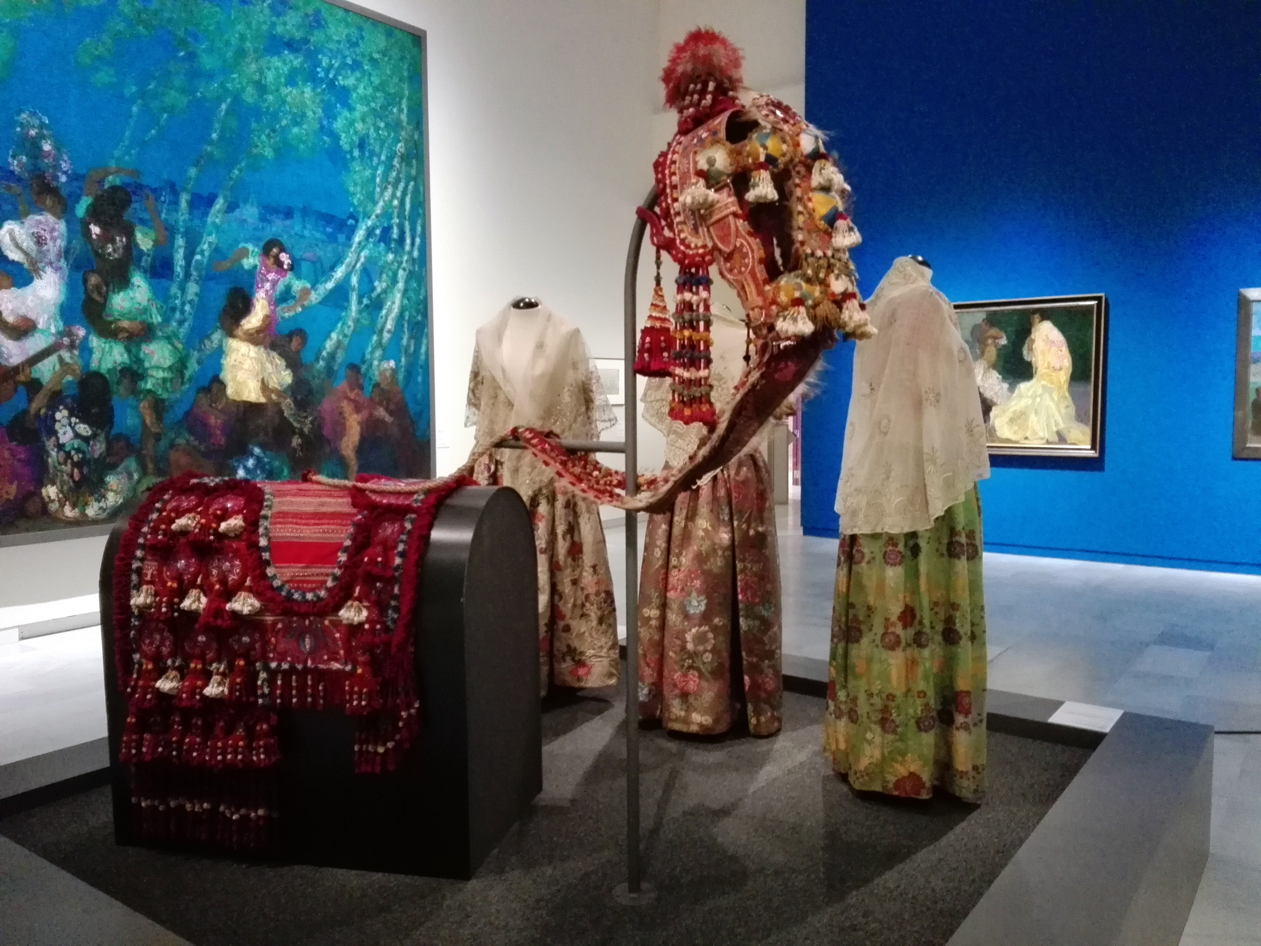 Valencinian dresses acquired by the artist as template for his paintings